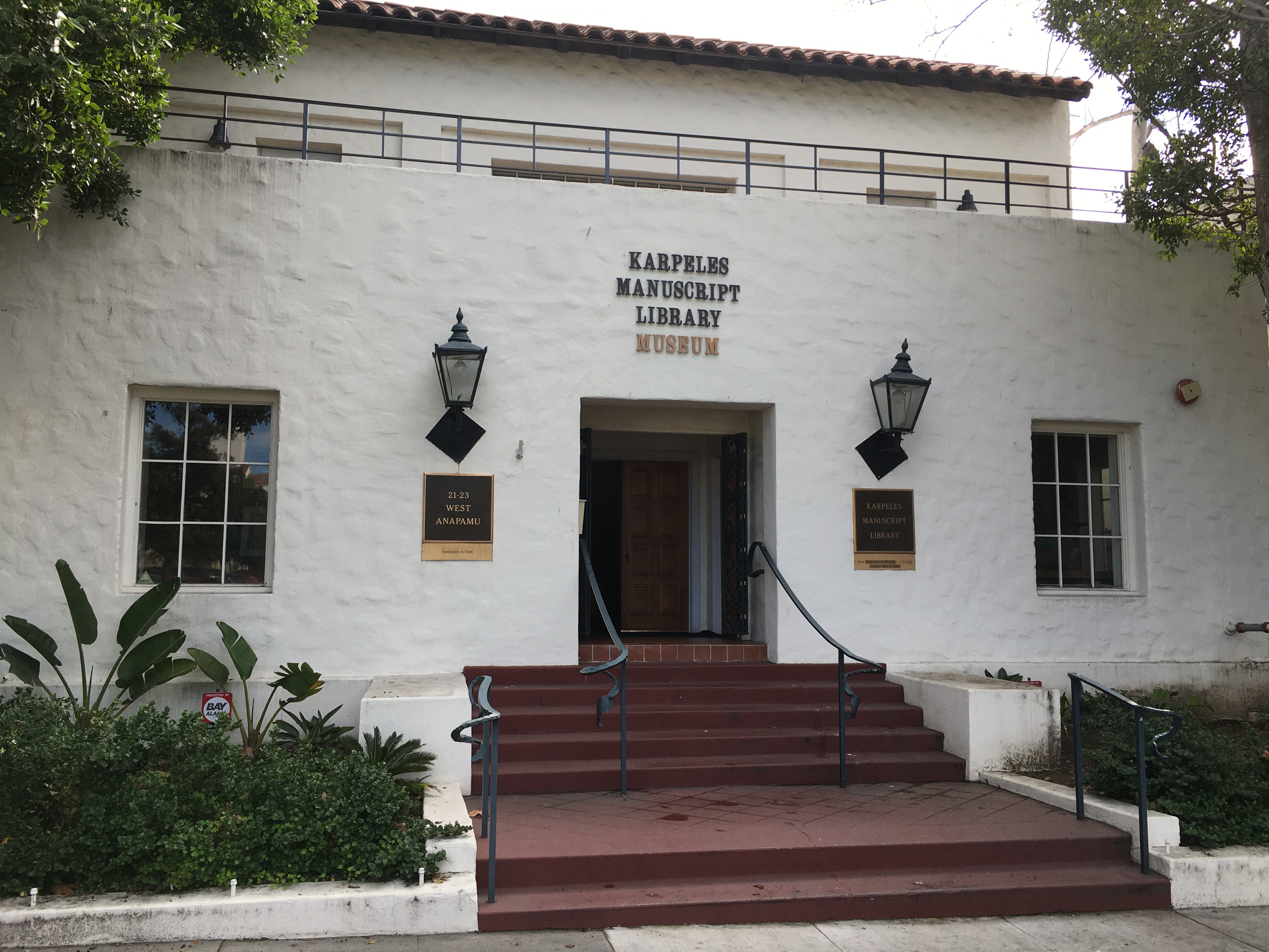 Karpeles Manuscript Library, Santa Barbara